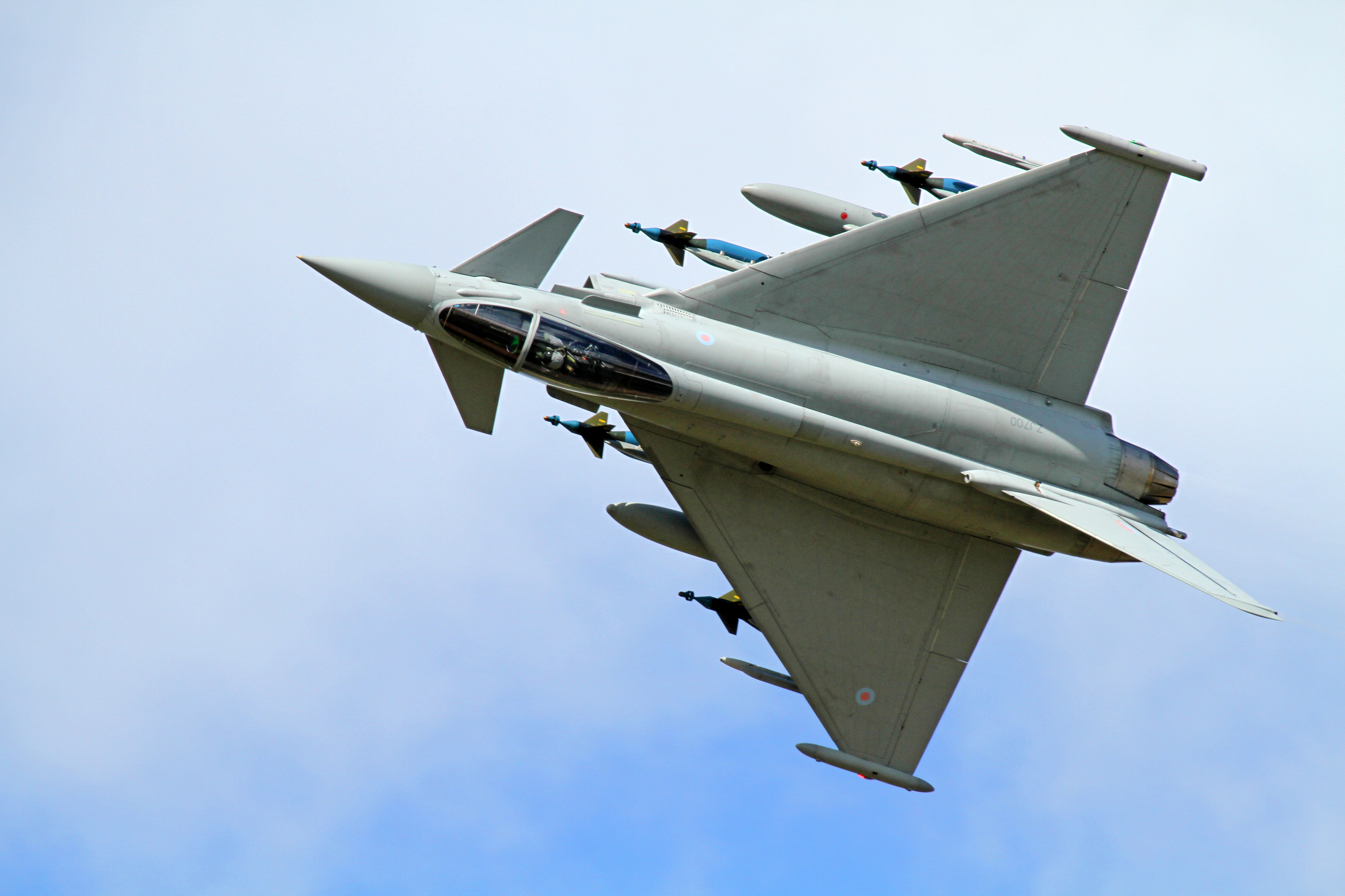 Eurofighter Typhoon FGR4 7